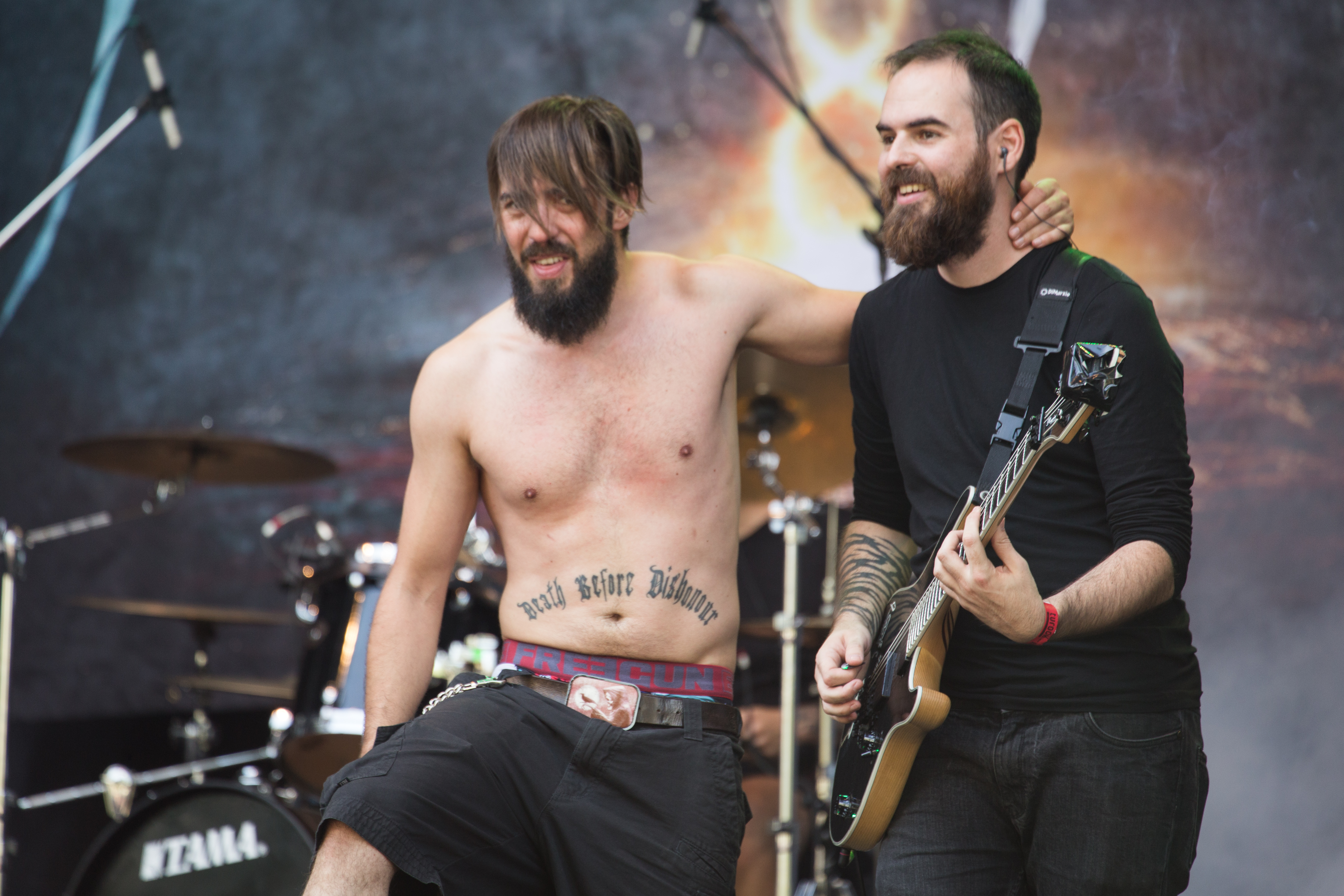 Persefone performing live at Turock Open Air, Essen 2015